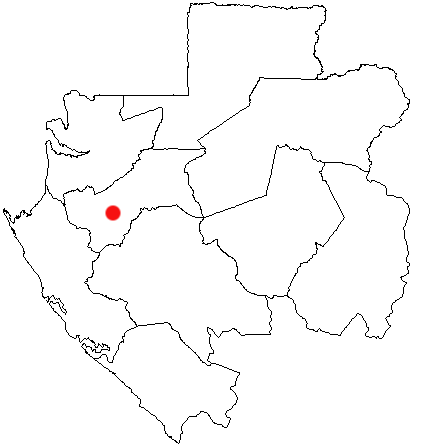 Lambaréné, Gabon Location Map; created with the GIMP. Made by User:Acntx.